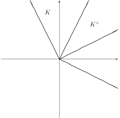 Sample solvency cone in 2 dimensions with 50% transaction costs and 1 to 1 exchange.